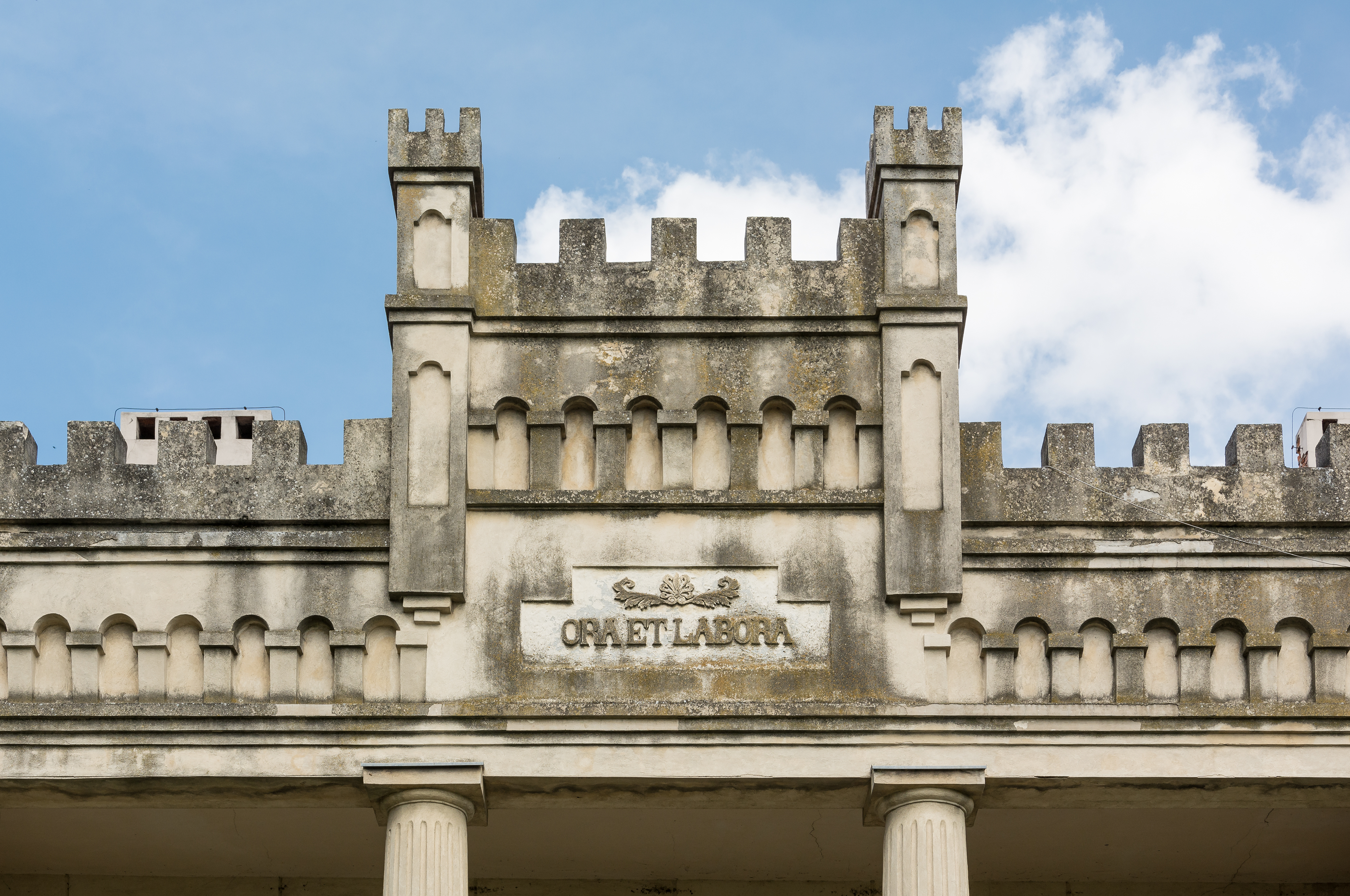 Palace in Gościeszyn Wikidata has entry Q33139907 with data related to this item.